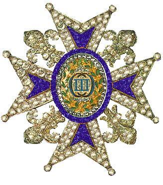 Cross of the Order's commandeurs.